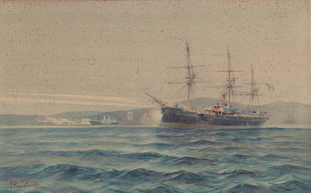 Greek cruiser "Miaoulis"